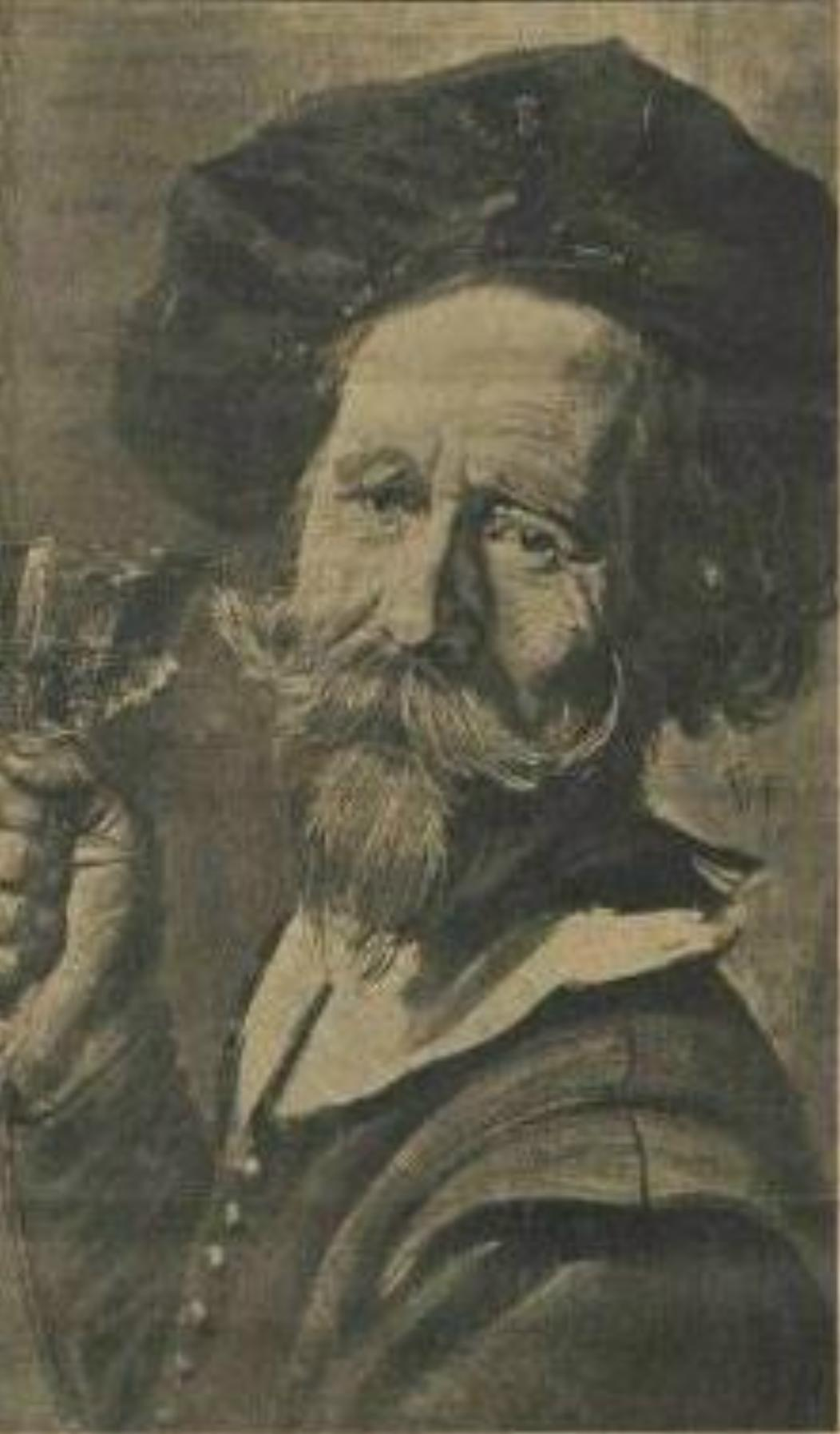 Old photo of the painting "Portrait of Pieter Verdonck" when it was still known as "Man with a wine glass", before & after photos published in an article in the Sumatra Post in 1928. The National Gallery of Scotland had just acquired the painting in 1927. Sumatra Post article in the Koninklijke Bibliotheek, record number KB 1634 C1